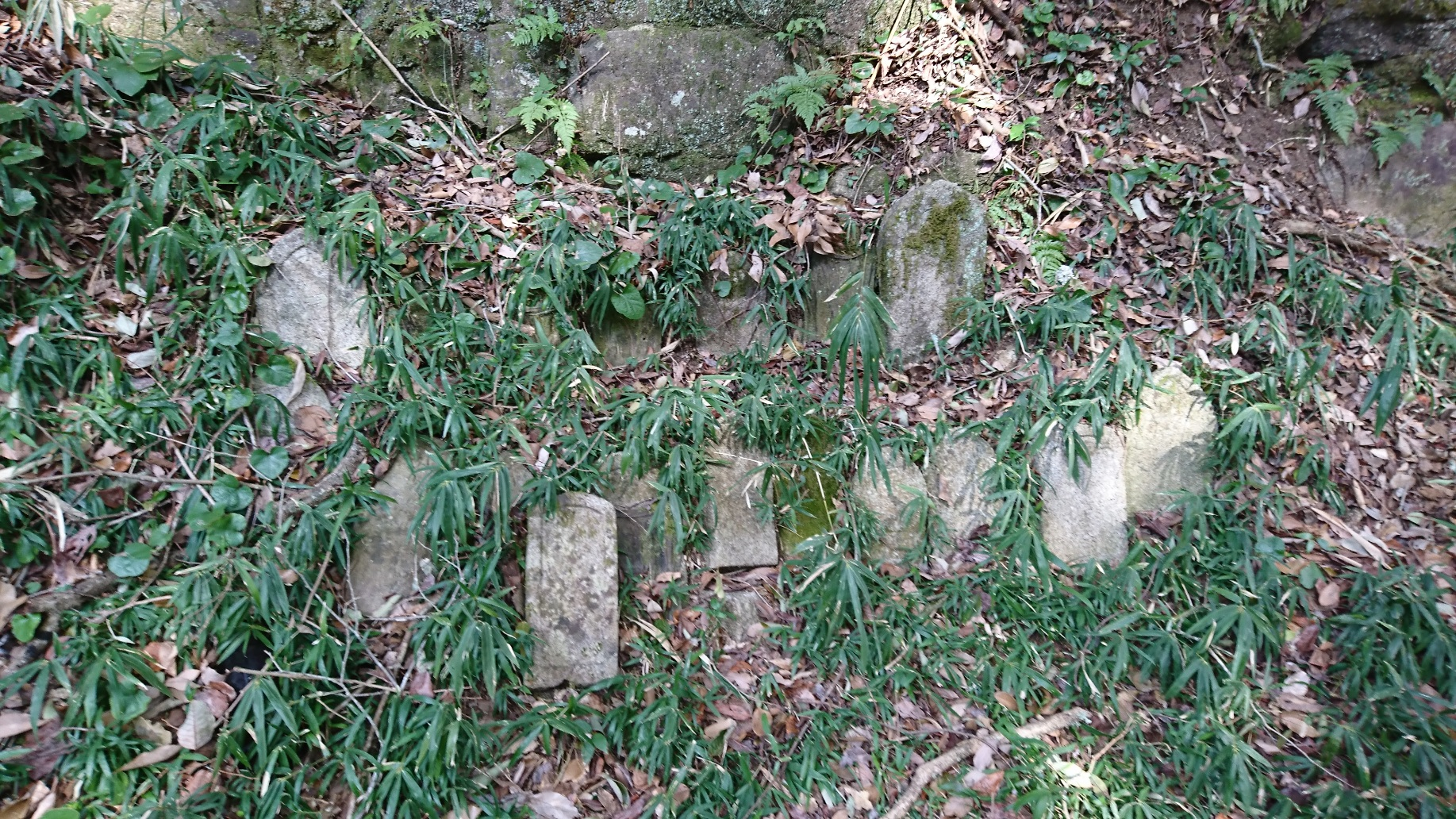 japan, kyoto